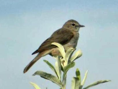 Brown Parisoma (Silvia lugens) - Eburu, Kenya